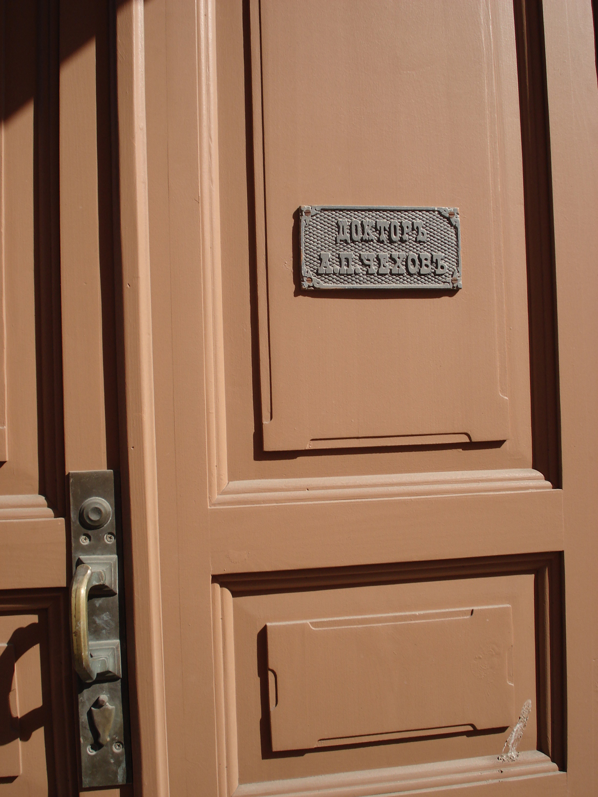 Anton Chekhov house in Moscow (1886-1890), Sadovaya-Kudrinskaya street 6